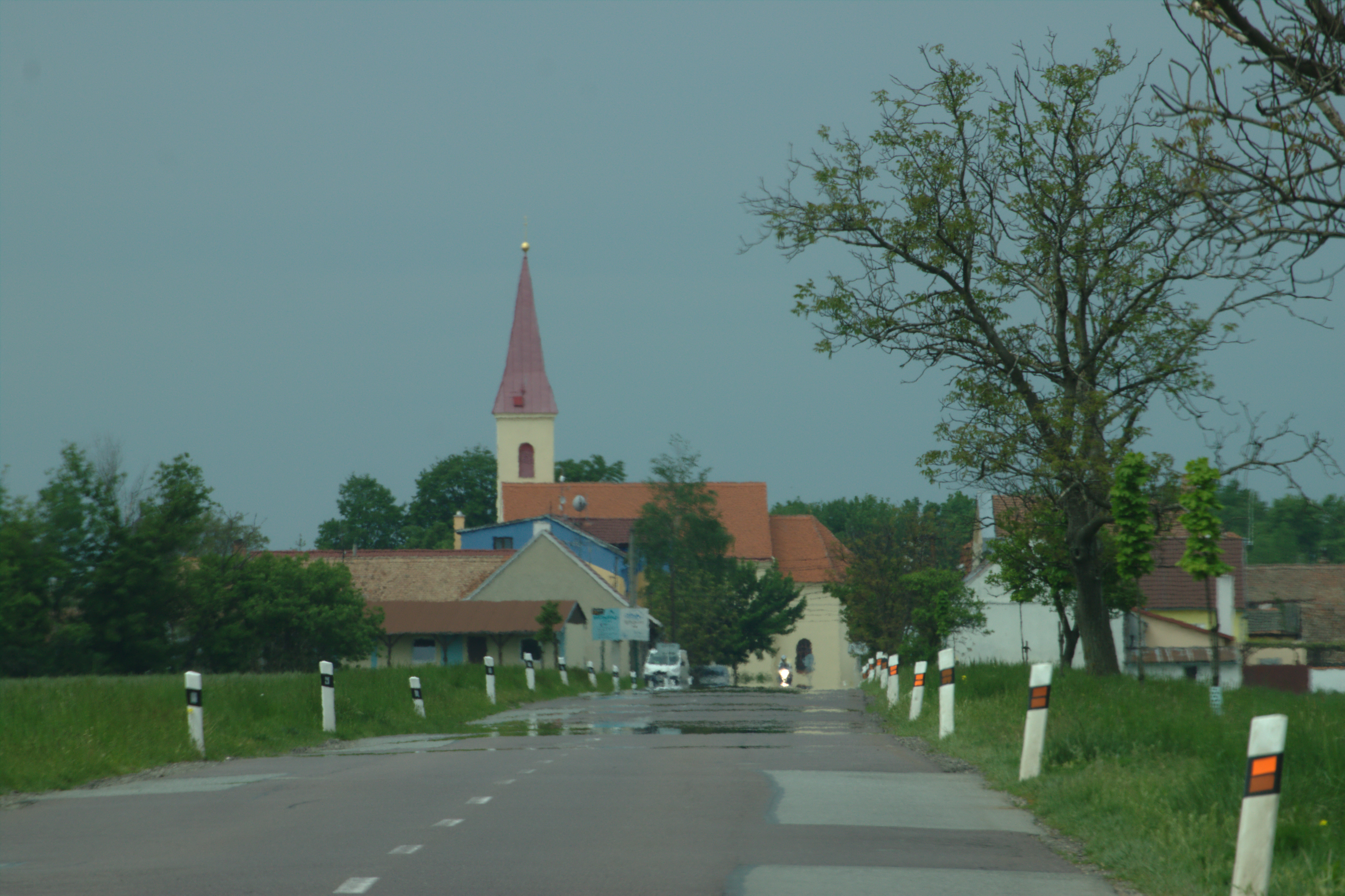 Main road in the direction to Čejkovice, South Moravian Region, CZ